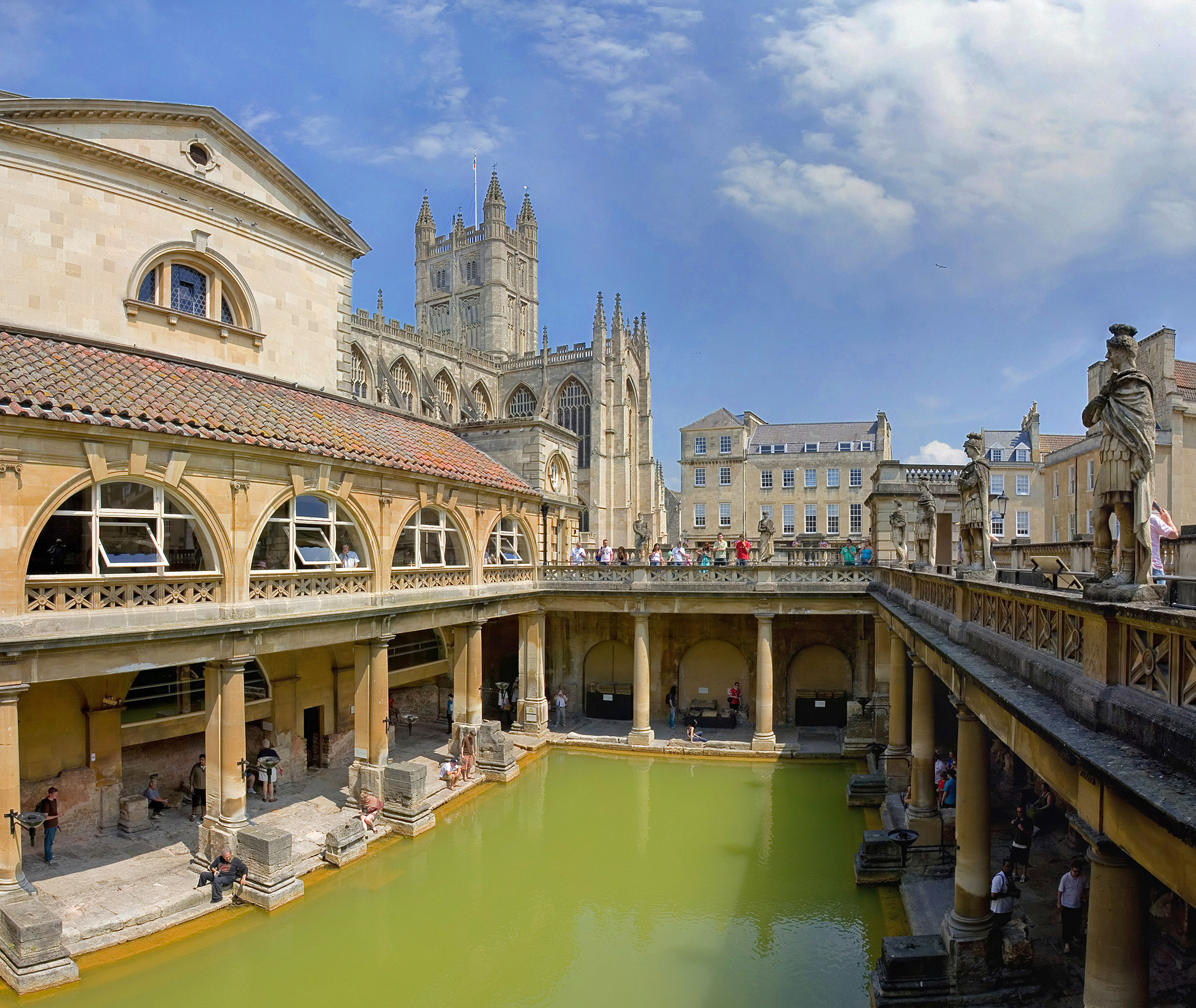 The Roman Baths (Thermae)of Bath Spa, England. This is a 6 segment panorama taken by myself with a Canon 5D and 24-105mm f/4L IS lens.